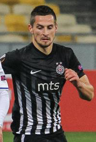 Nemanja G. Miletić during the Dynamo Kyiv vs. Partizan Belgrade match in December 2017.